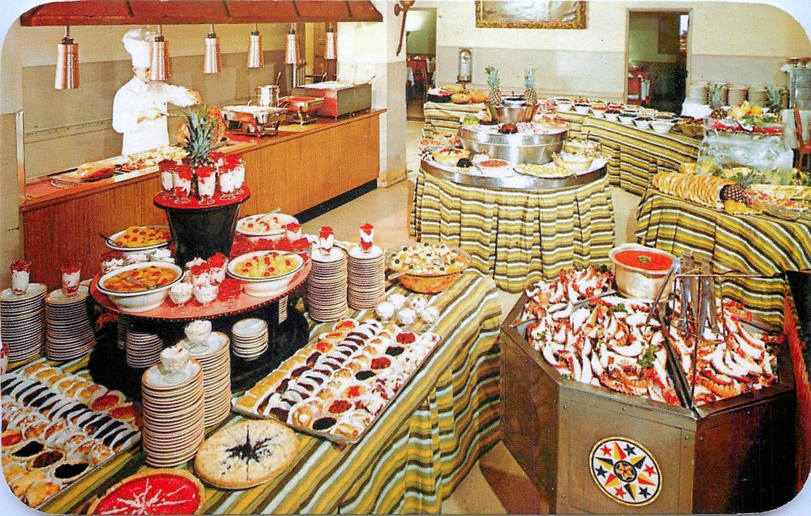 Postcard of Americus Hotel Buffet - 1955